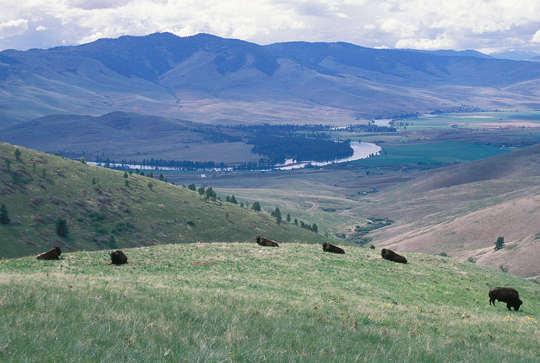 Five bison part of a larger herd lying down on a grassy slope at the National Bison Range in Moiese, Montana.